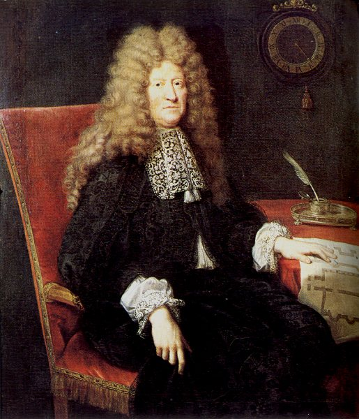 Portrait of Édouard Colbert de Villacerf (1628-1699)